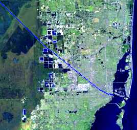 I used Image:Miami web.jpg to highlight the Miami river in blue using paint.